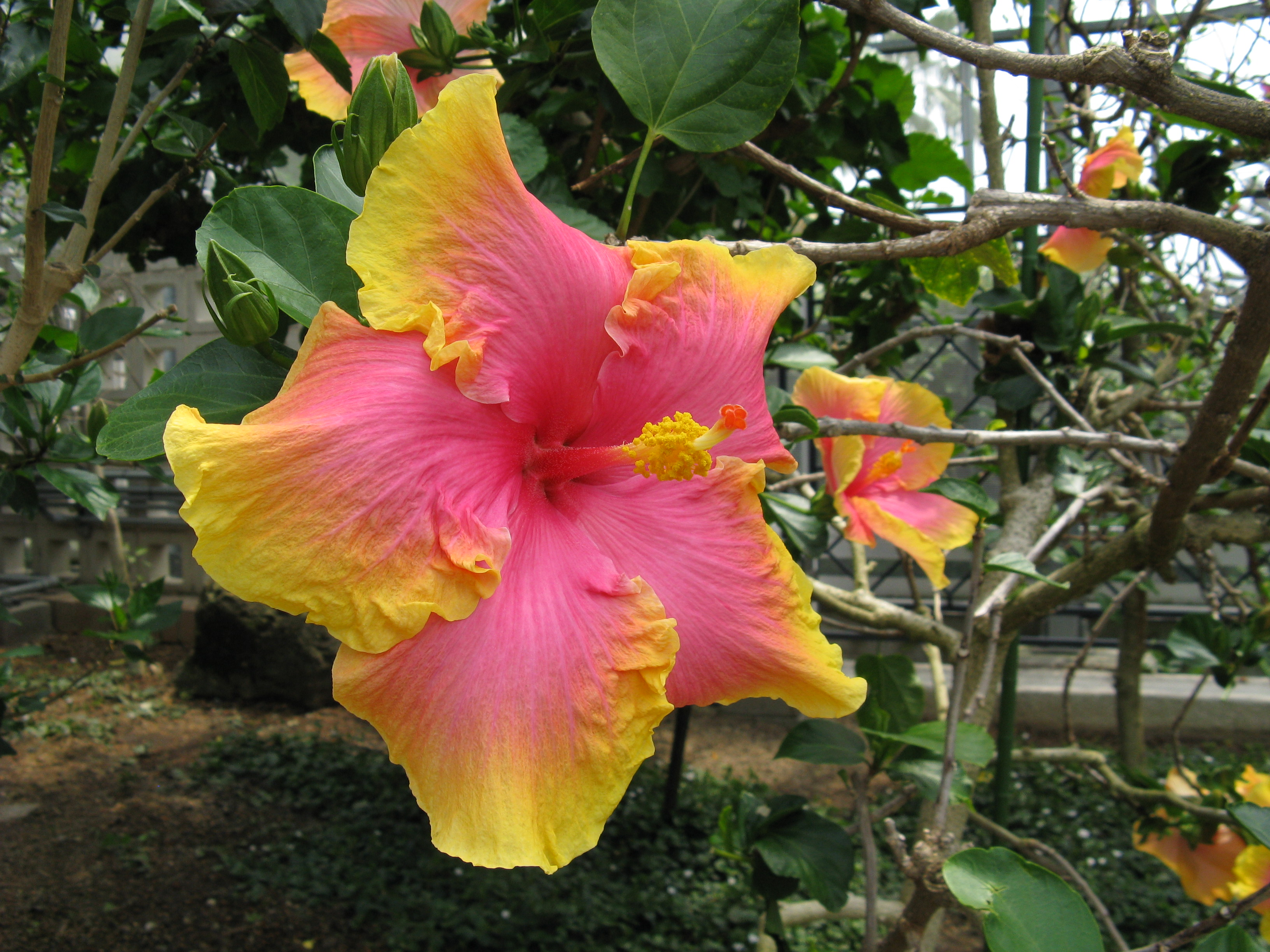 Scientific name Hibiscus cv. Crinkle Rainbow Place:Sakuya Konohana Kan,Osaka,Japan